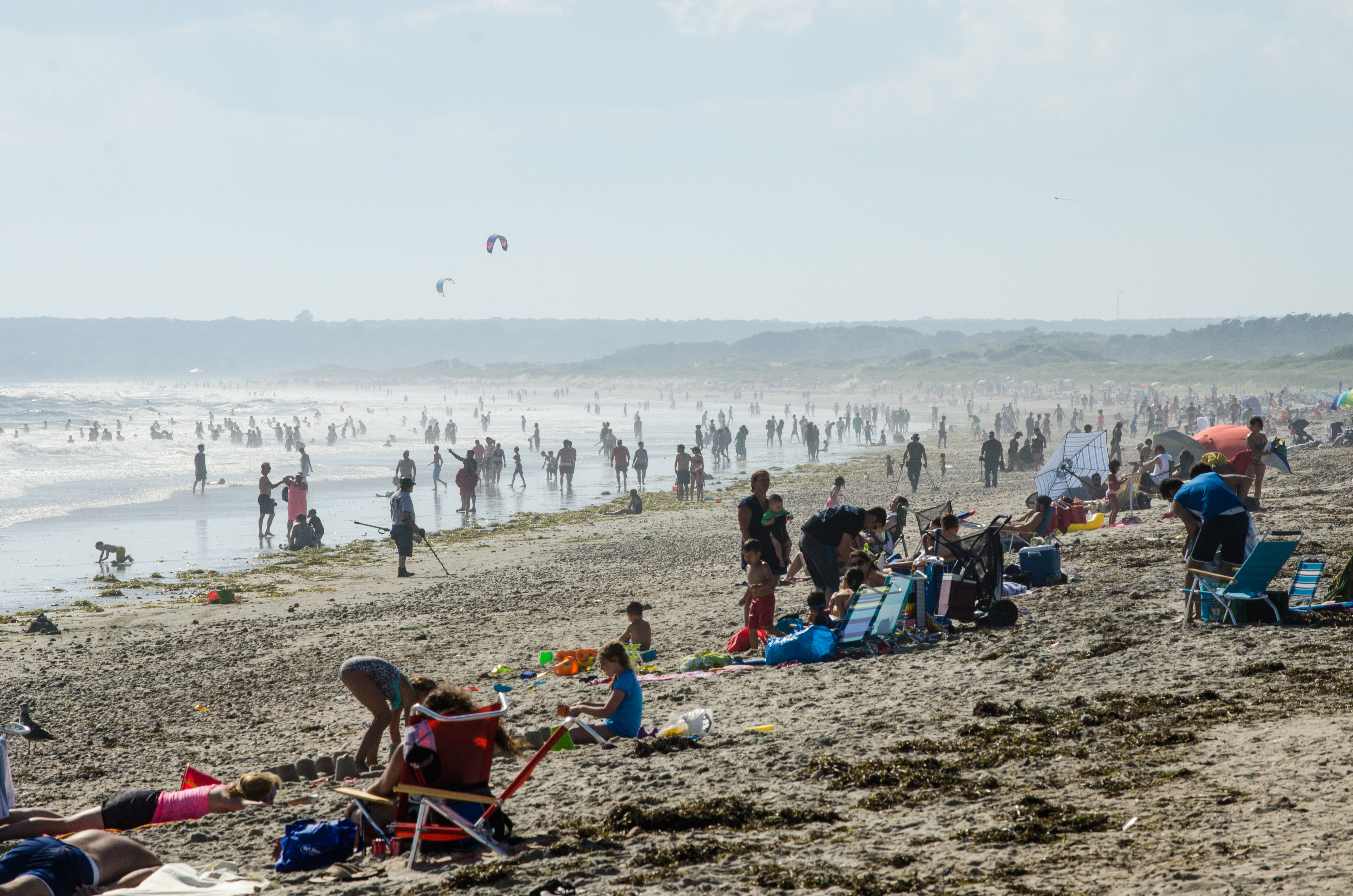 A busy hot summer day at Horseneck Beach in Westport, MA.